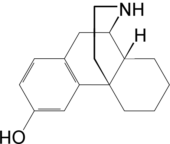 Skeletal formula of Norlevorphanol (morphinan-3-ol; (-)-3-Hydroxymorphinan)